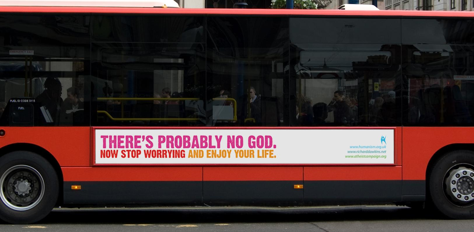 One of the atheist adverts on the side of London General's MAL115 (BP57 UYG), a Mercedes-Benz Citaro G in London at the junction of Regent Street and Oxford Circus.